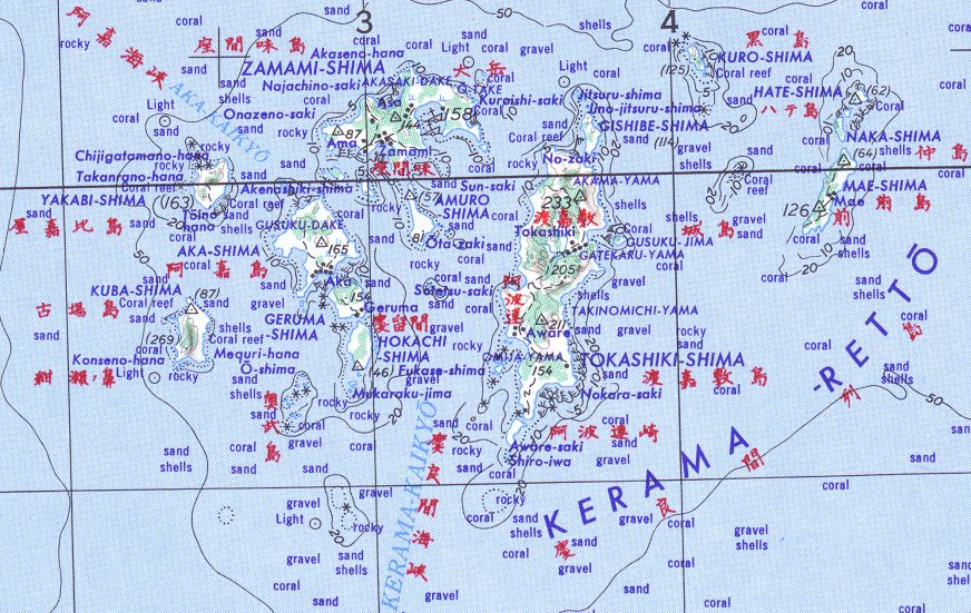 topographic map of the Kerama Islands